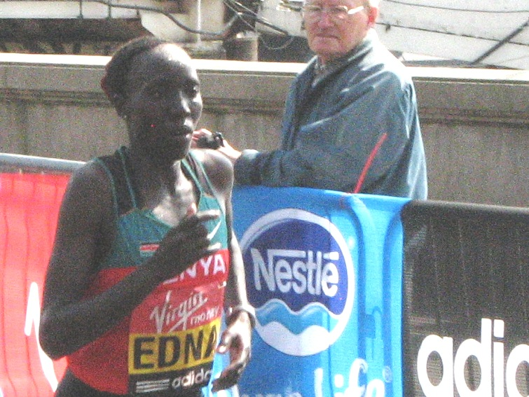 Edna Kipligat came third with 02:20:46. Virgin London Marathon, 17 April 2011. Taken from 24 and a half miles, at the (western) junction of Victoria Embankment and Temple Place, very close to the Walkabout.